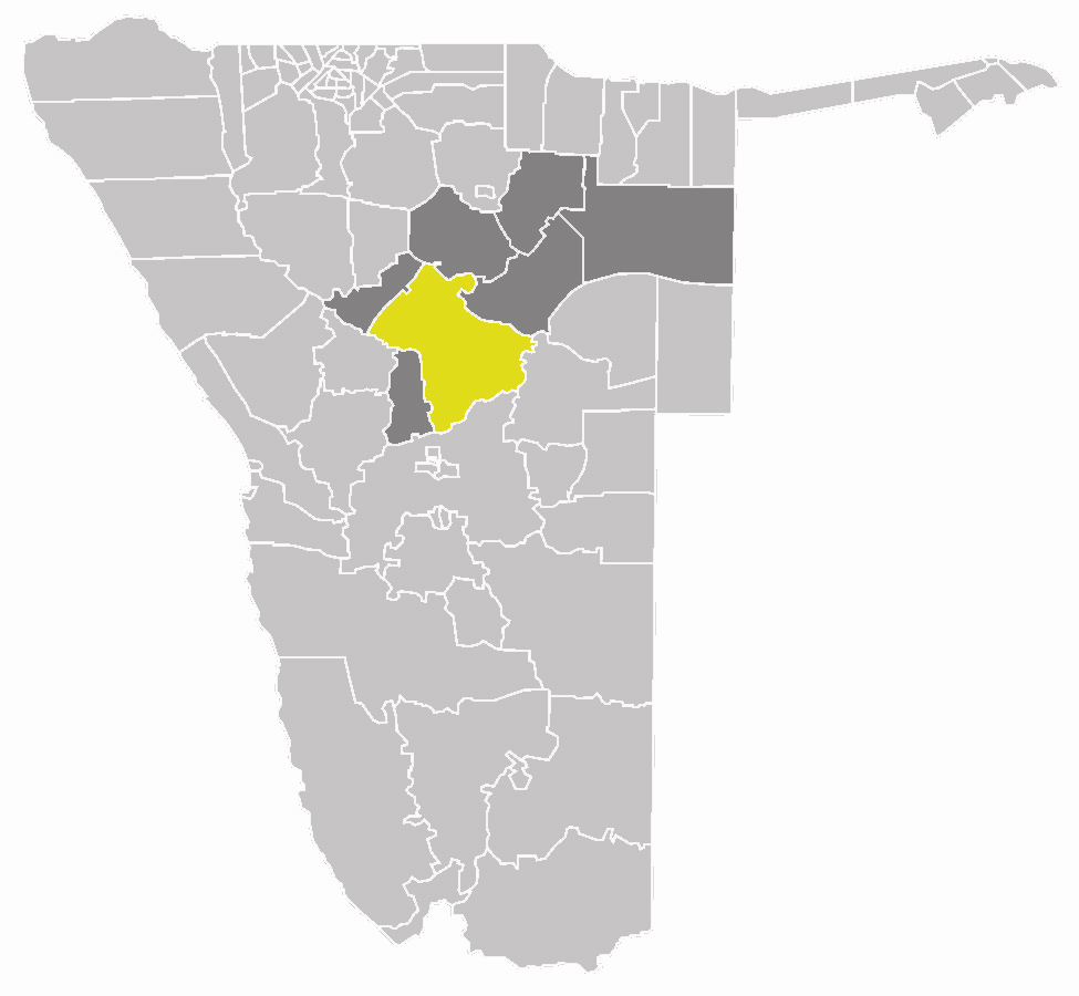 map of the Omatako constituency within the Otjozondjupa region, Namibia